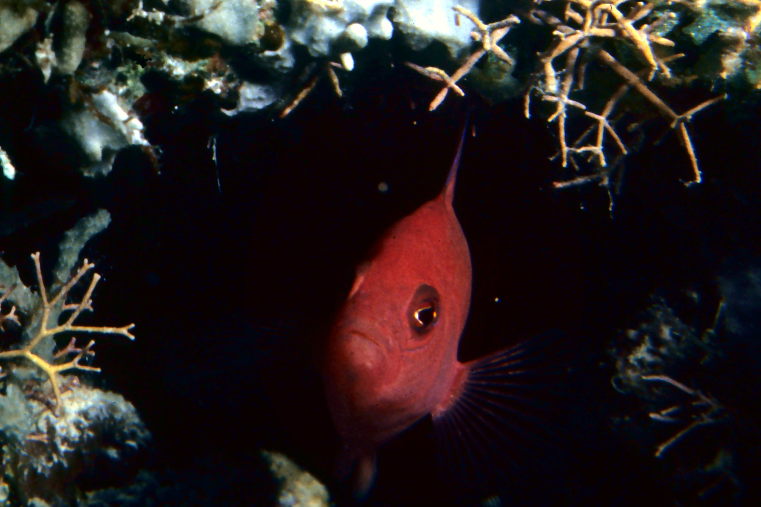 Queensland dottyback (Ogilbyina queenslandiae)